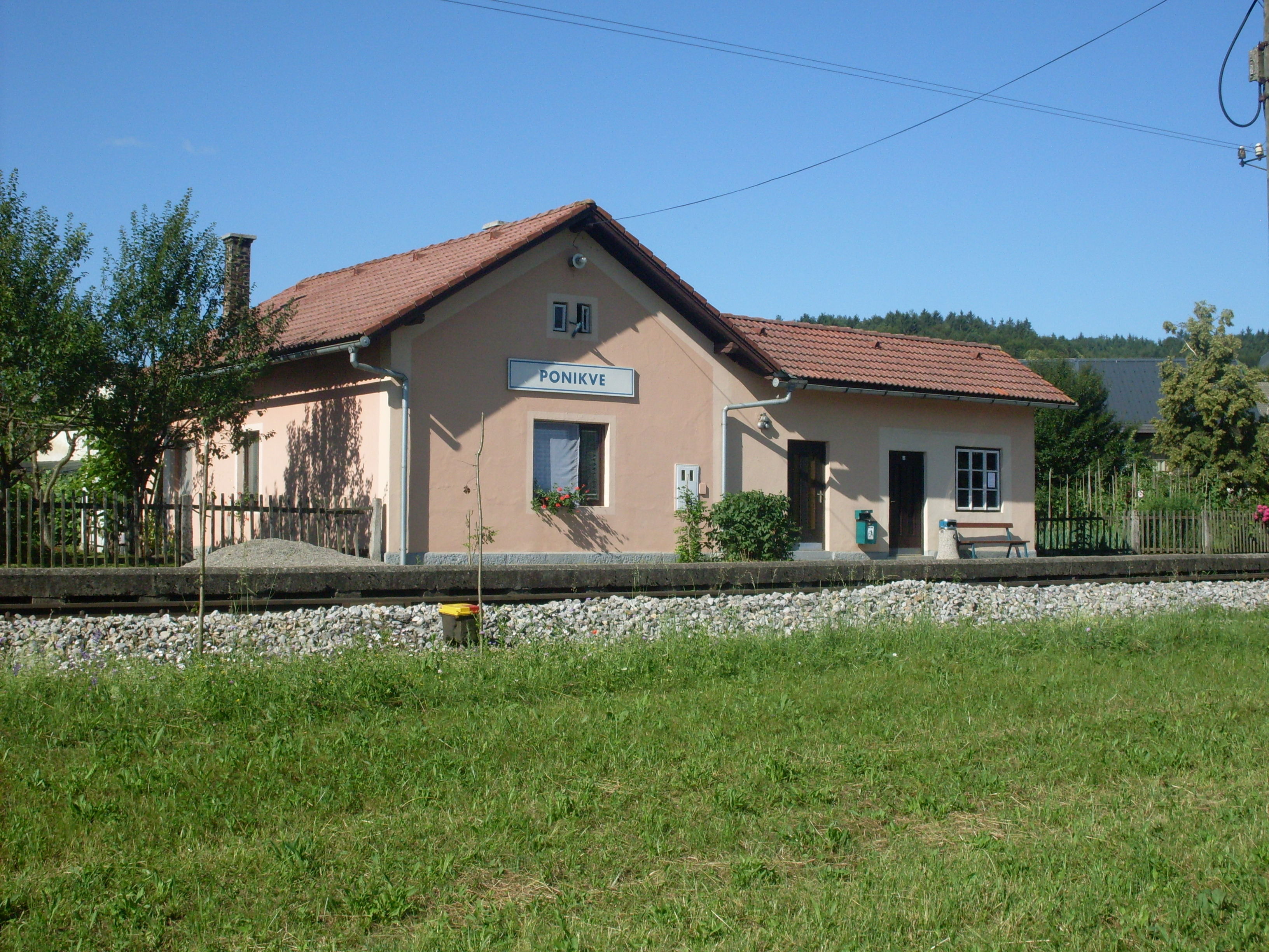 Railway halt Ponikve na Dolenjskem (or shorter Ponikve), actually located in Gorenje PonikveSlovenščina: Železniško postajališče Ponikve na Dolenjskem (krajše Ponikve), ki se nahaja v vasi Gorenje Ponikve